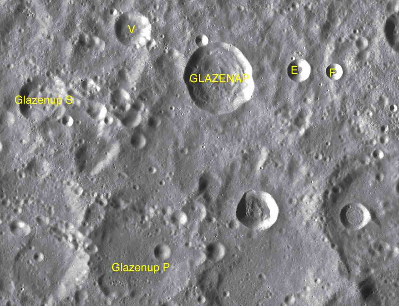 Part of the chart LAC-84 used for the presentation